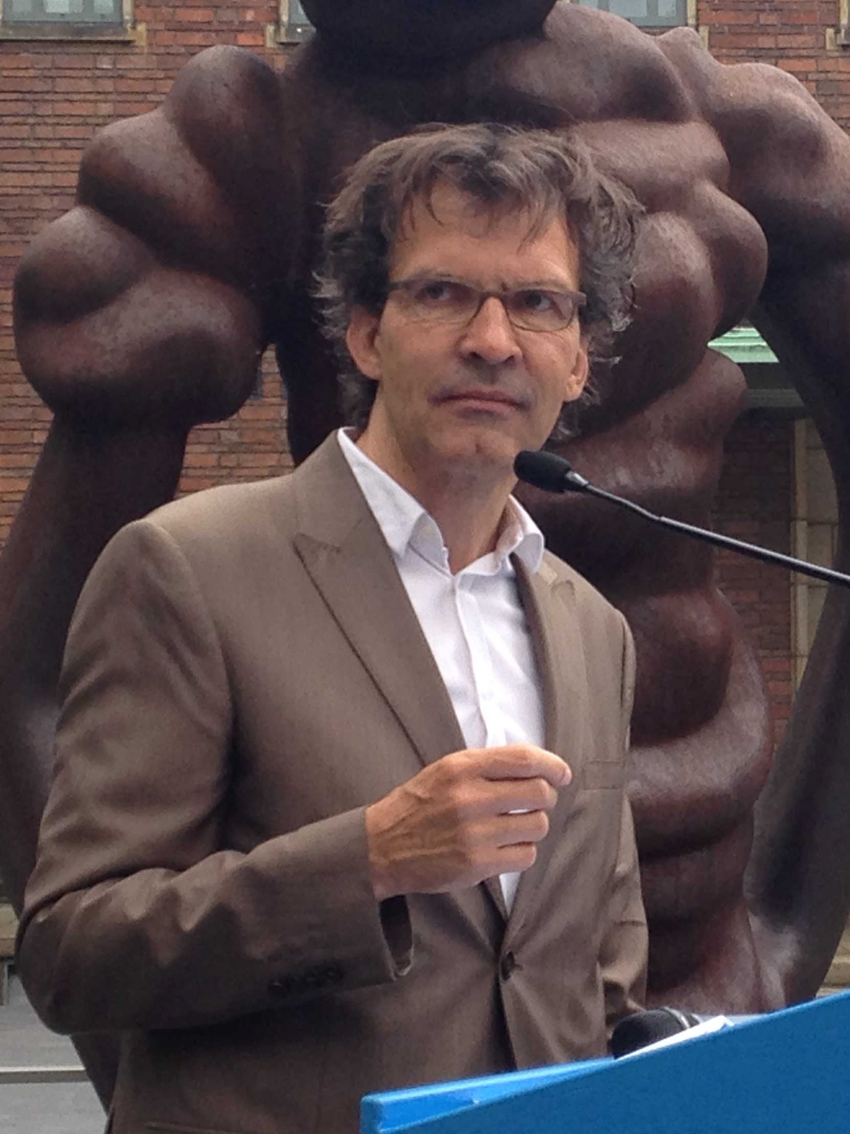 Sjarel Ex, director of Museum Boijmans Van Beuningen in Rotterdam, speeches during the opening of the exhibitions Paul Noble / Focus Beijing. Photo taken on the patio of Museum Boijmans Van Beuningen.